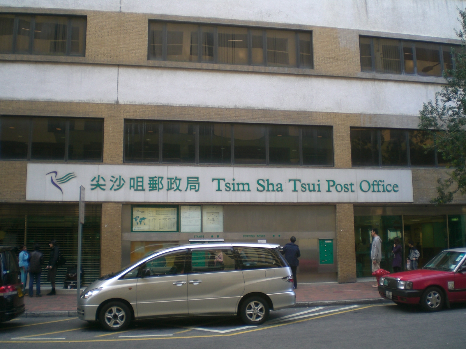 尖沙咀郵政局位於zh:中間道10號zh:國際電信大廈